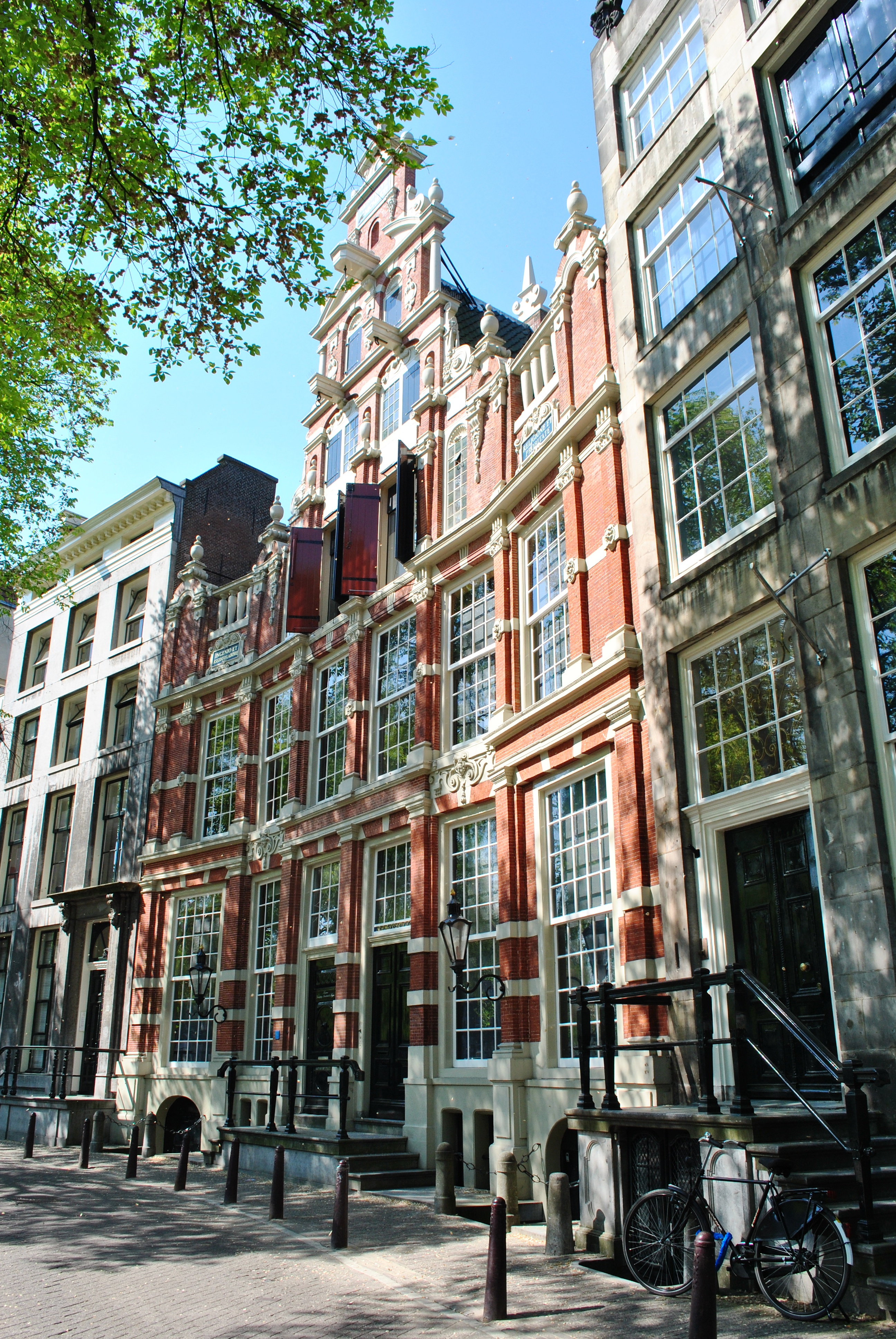 Huis Bartolotti, Herengracht 170, Hendrick de Keyser, 1617